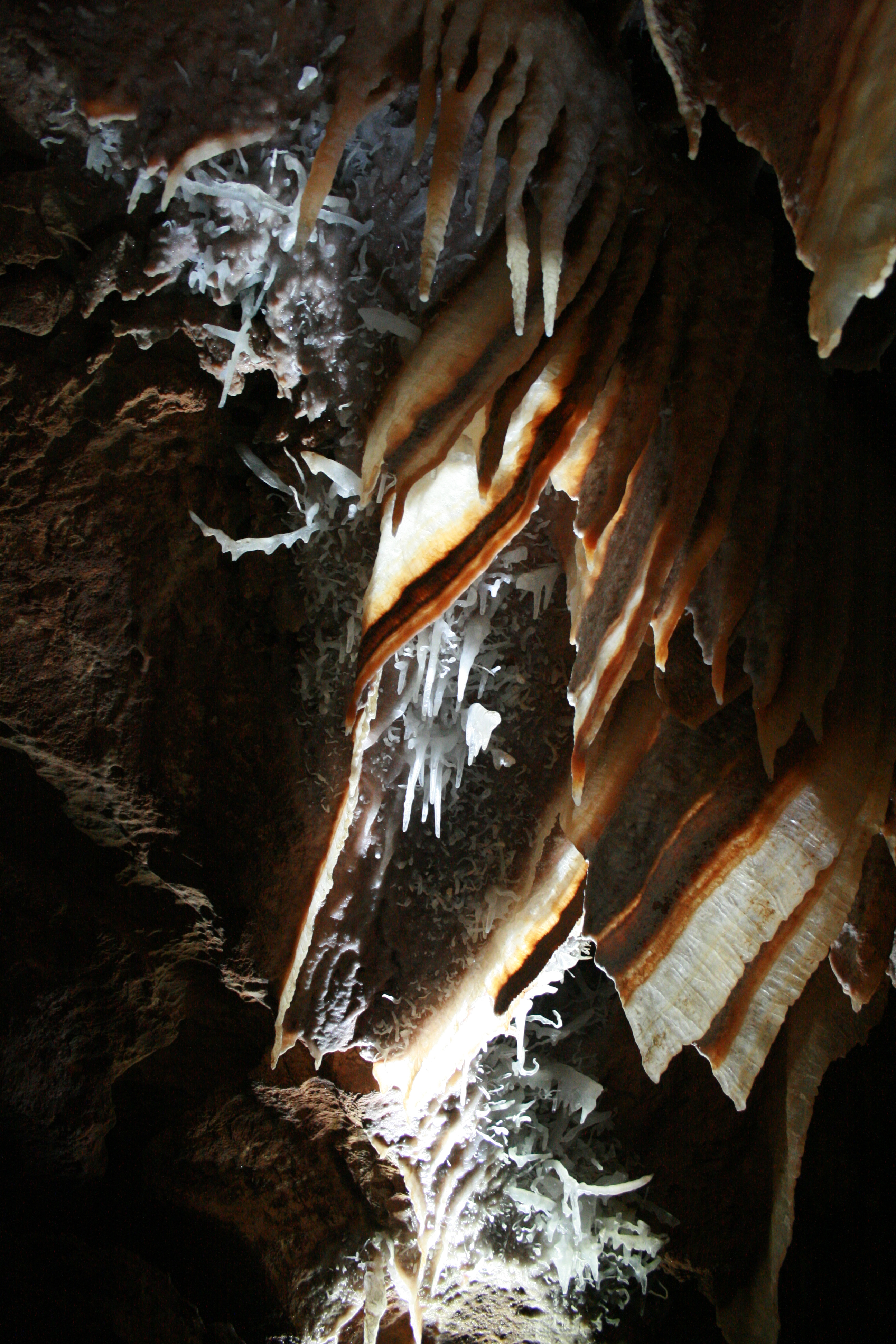 Limestone formations in the Orient Cave at Jenolan Caves, NSW, Australia.